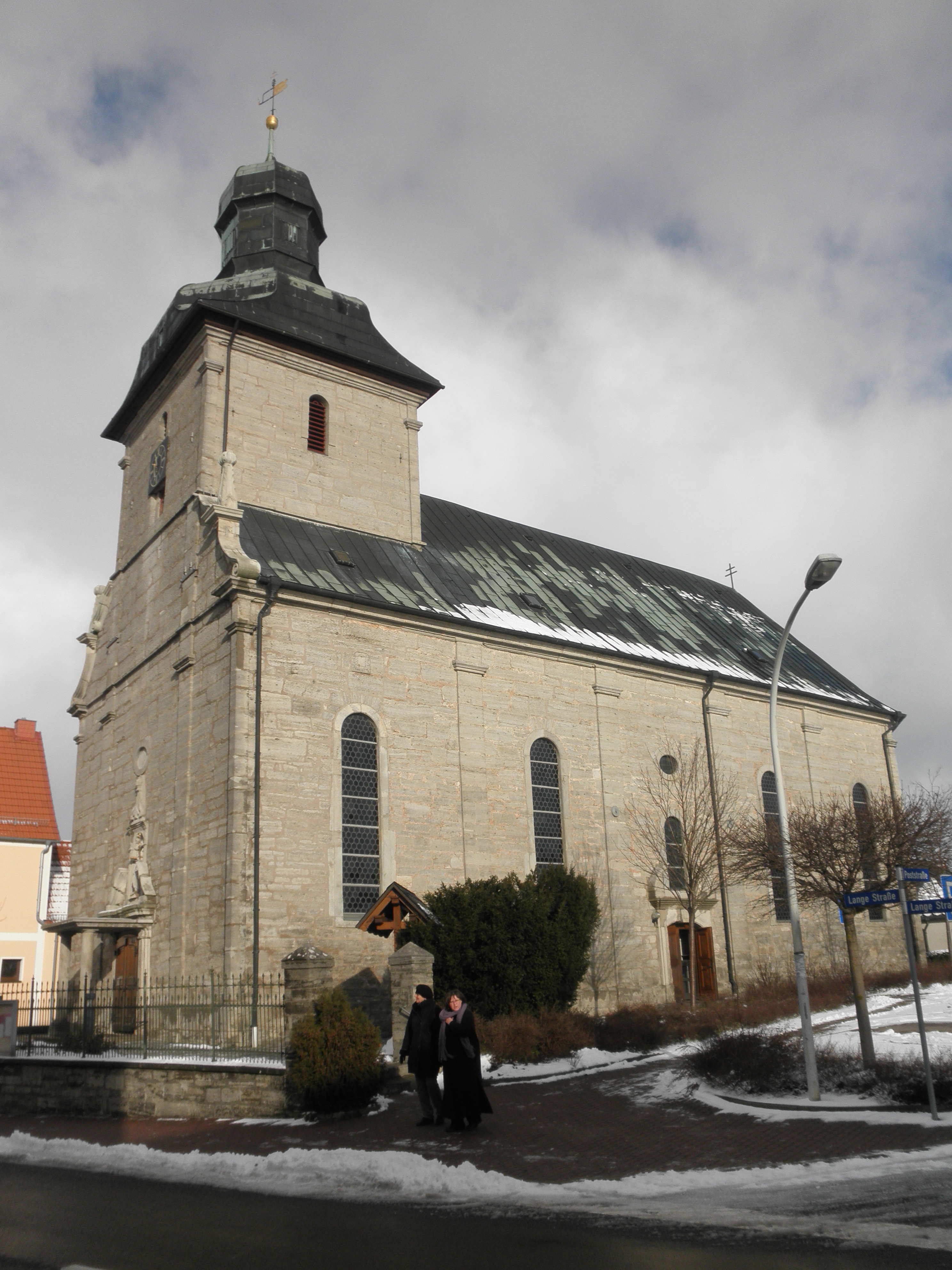 Church in Struth (Eichsfeld) in Thuringia